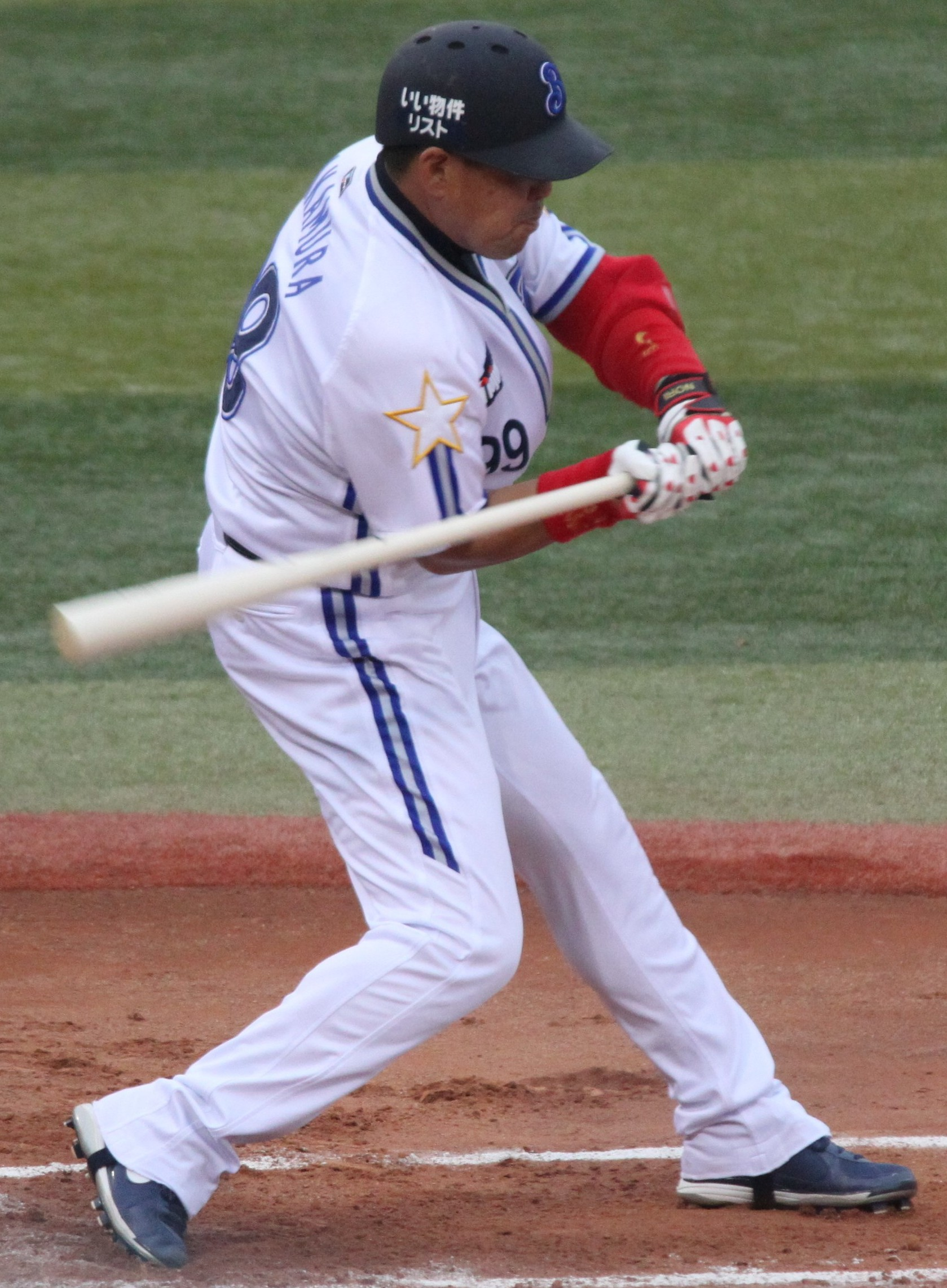 Norihiro Nakamura, infielder of the Yokohama BayStars, at Yokohama Stadium.